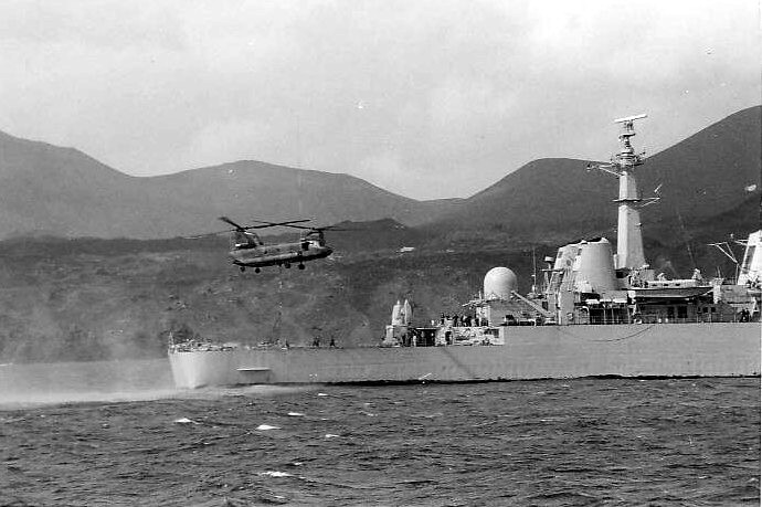 HMS Bristol storing war supplies at Ascension Island 1982.